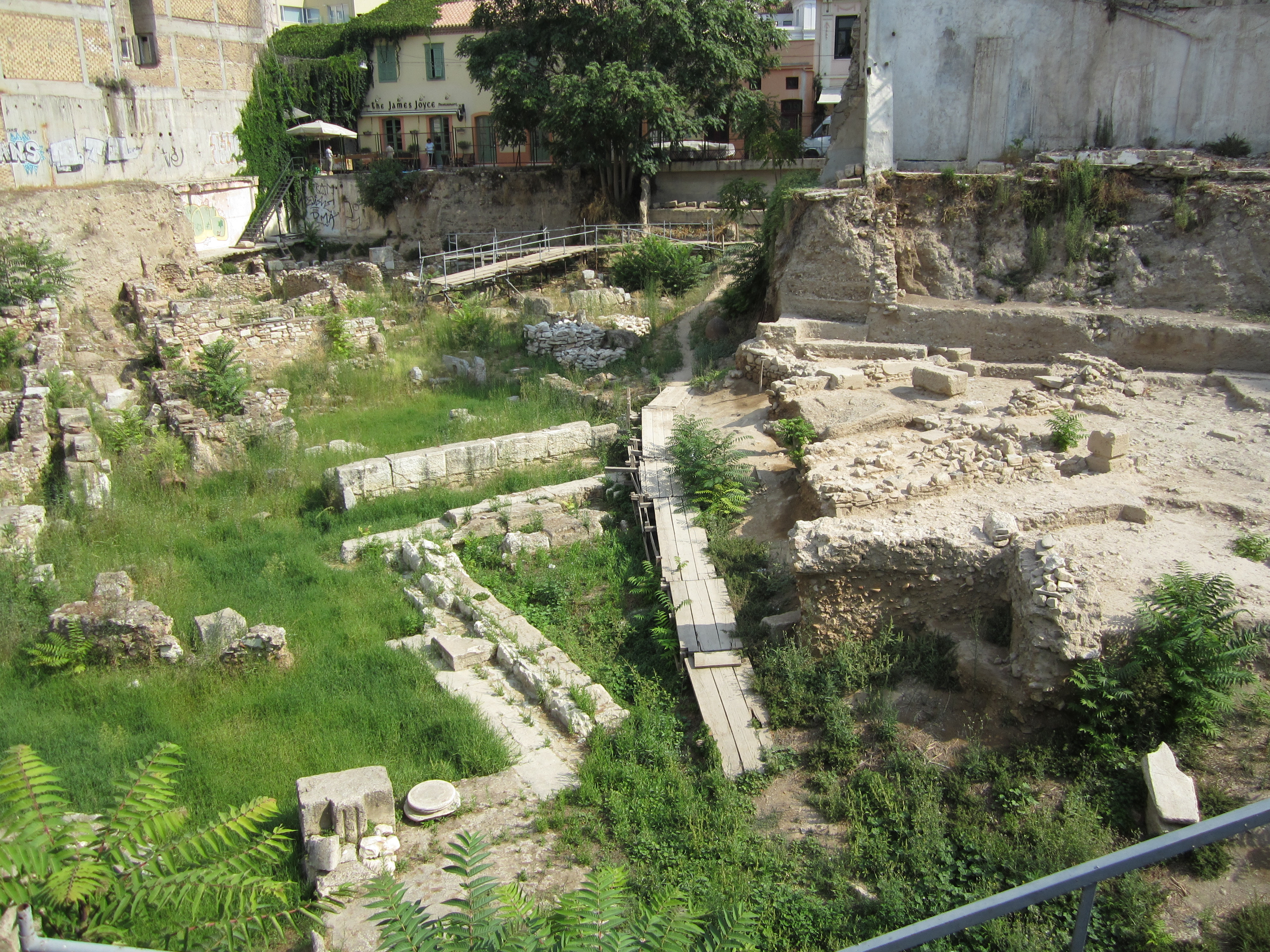 Archaeological site of Stoa Poikile, Ancient Agora of Athens.